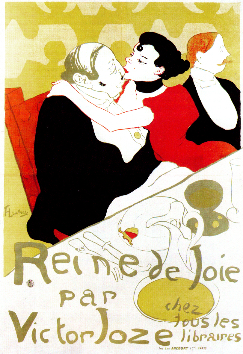 Henri de Toulouse-Lautrec: Reine de Joie, Plakat in vier Farben, 1892